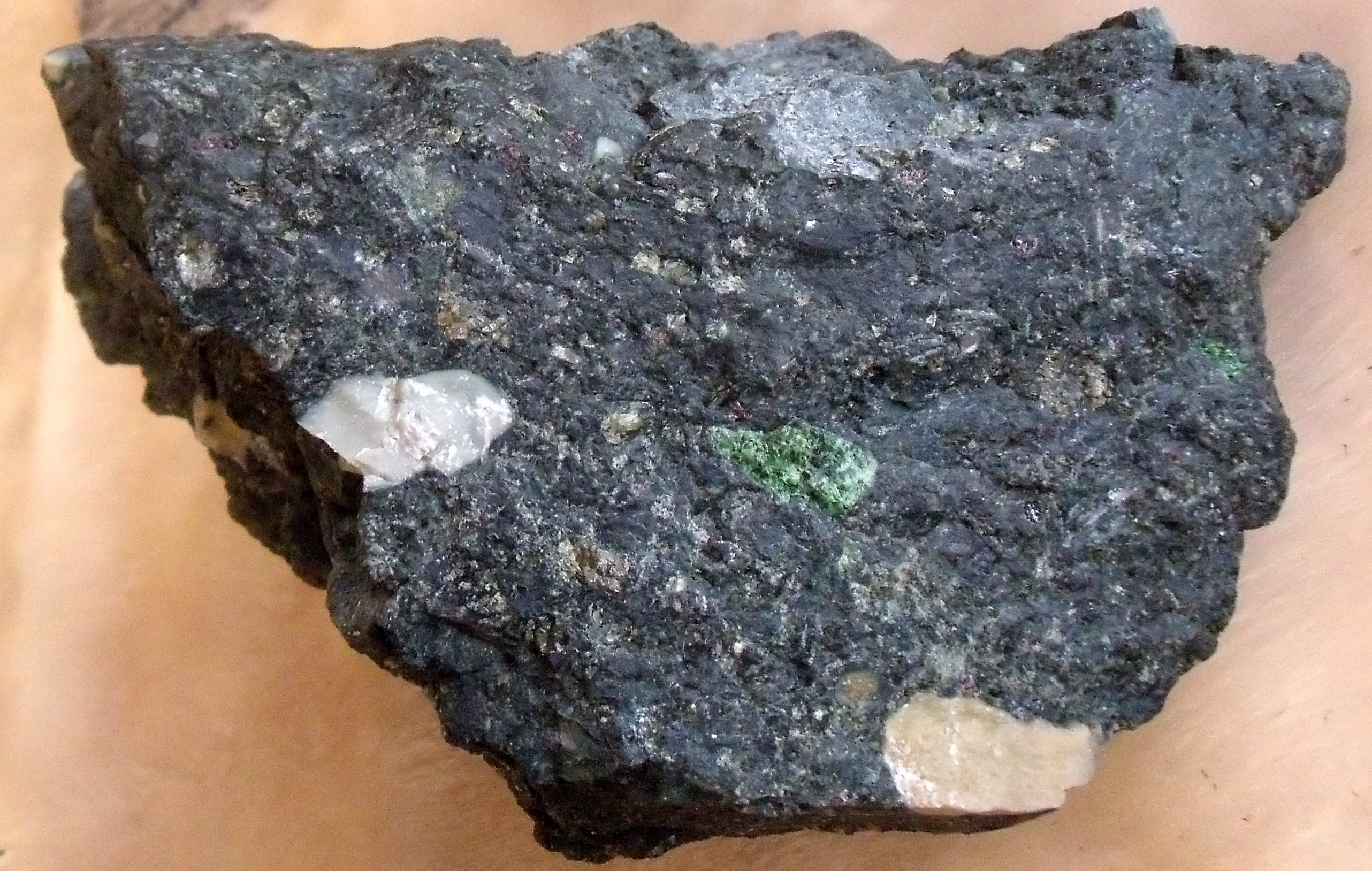 Kimberlite from the Cumberland Peninsula, Baffin Island, Nunavut, Canada. Exploration company Peregrine Diamonds has been turning heads with their press releases. This hand-sized specimen contains several obvious green chrome diopside and abundant smaller wine-red pyrope garnet, which are colorful kimberlite indicator minerals (KIMs) that a prospector looks for. Chi-ching.